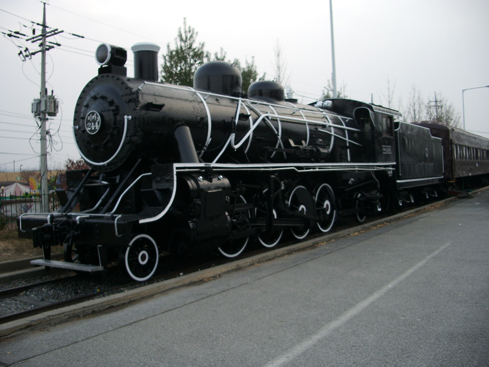 This Mikado is typical of the locomotives that served on Korean rail network during the war, and is part of the termination point monument, showing a desire to continue chugging north. The coal carriage toward the back shows the old Korean National Railroad (now known as Korail) logo. While the rail link to North Korea is physically restored and served by freight trains, only one passenger train made the trip north on a test run basis, in 2007, and with the rising tensions from 2008 on, the link fell into disuse again, with even freight trains being halted. I would so love for this link to open to regularly scheduled passenger traffic, as it would allow a train journey from Seoul not only to North Korea, but into China, and Europe via the Trans-Siberian Railroad.